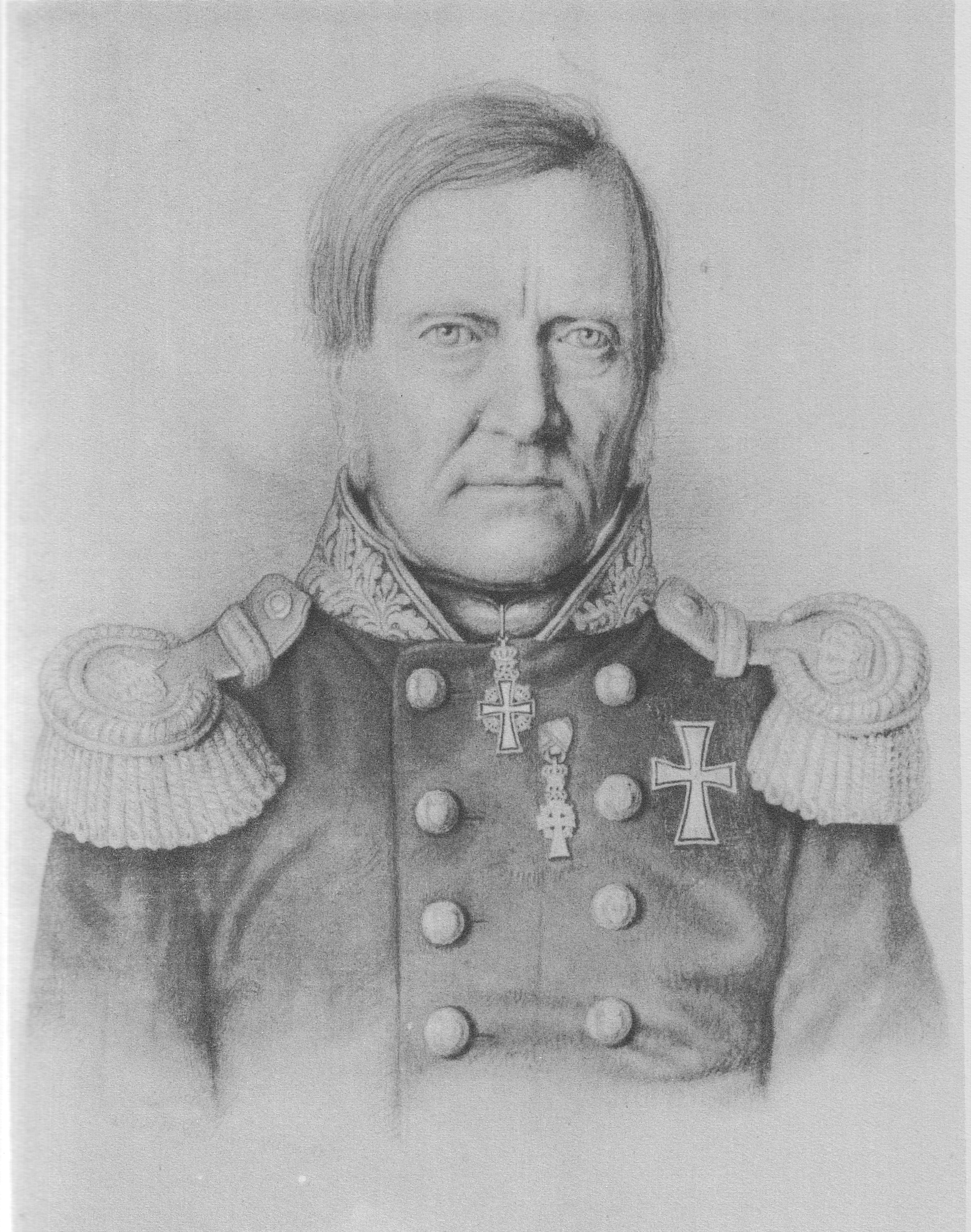 A portrait (pencil drawing) of Páll Melsteð (1791 - 1861). According to Árbók Fornleifafélagsins 1977 the original measures are 29 x 24 cm.